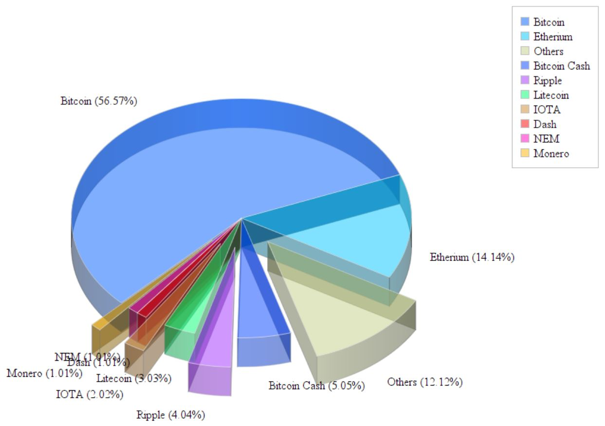 Market cap for cryptocurrency 2017-12-13: Bitcoin $276,418,848,987.00 Etherium $67,566,278,267.00 Bitcoin cash $26,923,588,456.00 Ripple $18,796,116,862.00 Litecoin $16,575,003,414.00 IOTA $11,300,235,956.00 Dash $6,874,224,623.00 NEM $4,775,948,999.00 Monero $4,771,101,736.00 Others $58,739,560,938.00 Total $492,740,908,238.00